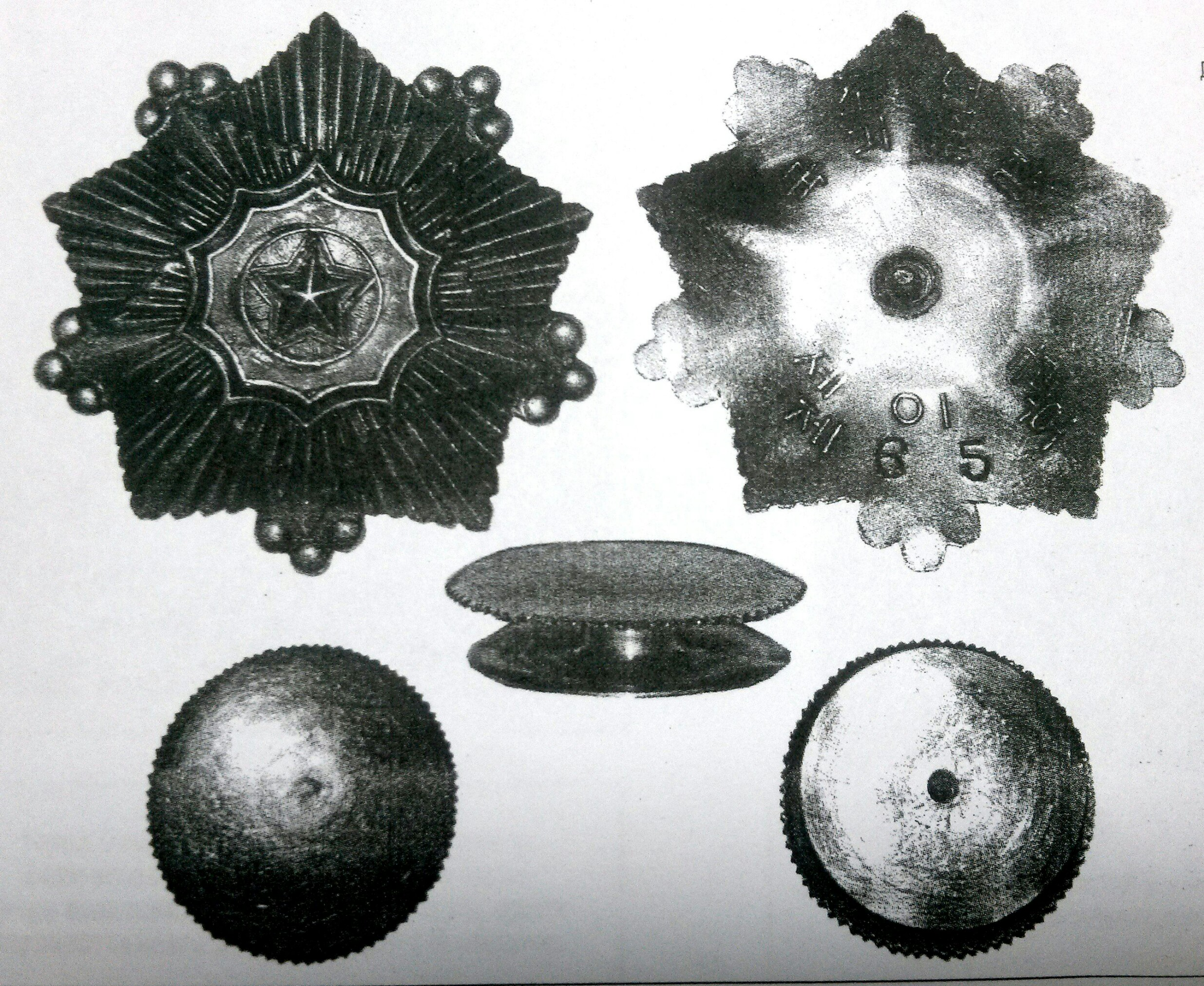 order of the national flag 2nd class first addition 2